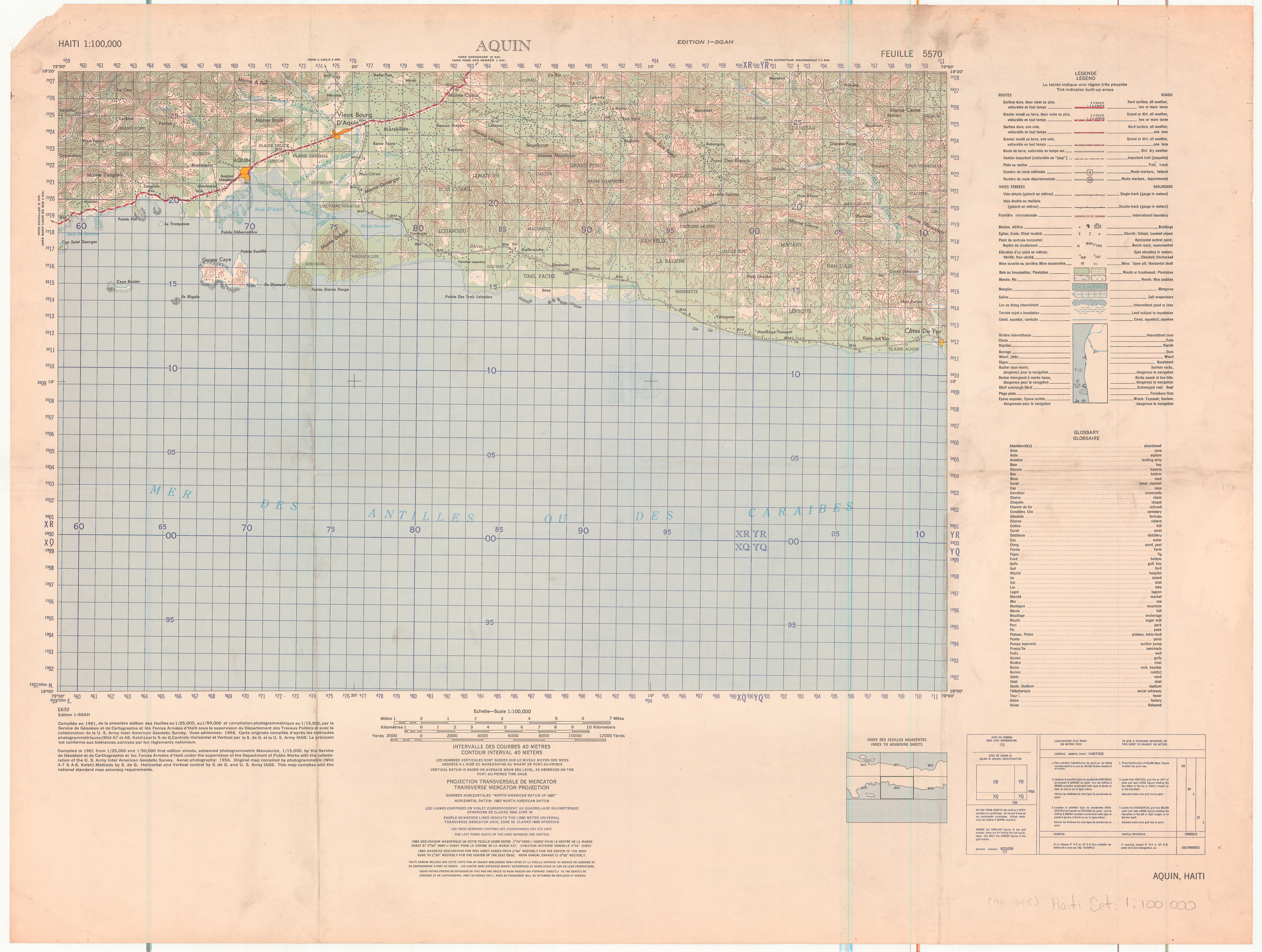 Some maps lack series statement. Some maps printed by Army Map Service, Corps of Engineers. Standard maps series designation: Series E632 Includes index to adjacent sheets, glossary, explanatory chart. Some maps have index to boundaries. Language: English and French. Relief shown by contours and spot heights.